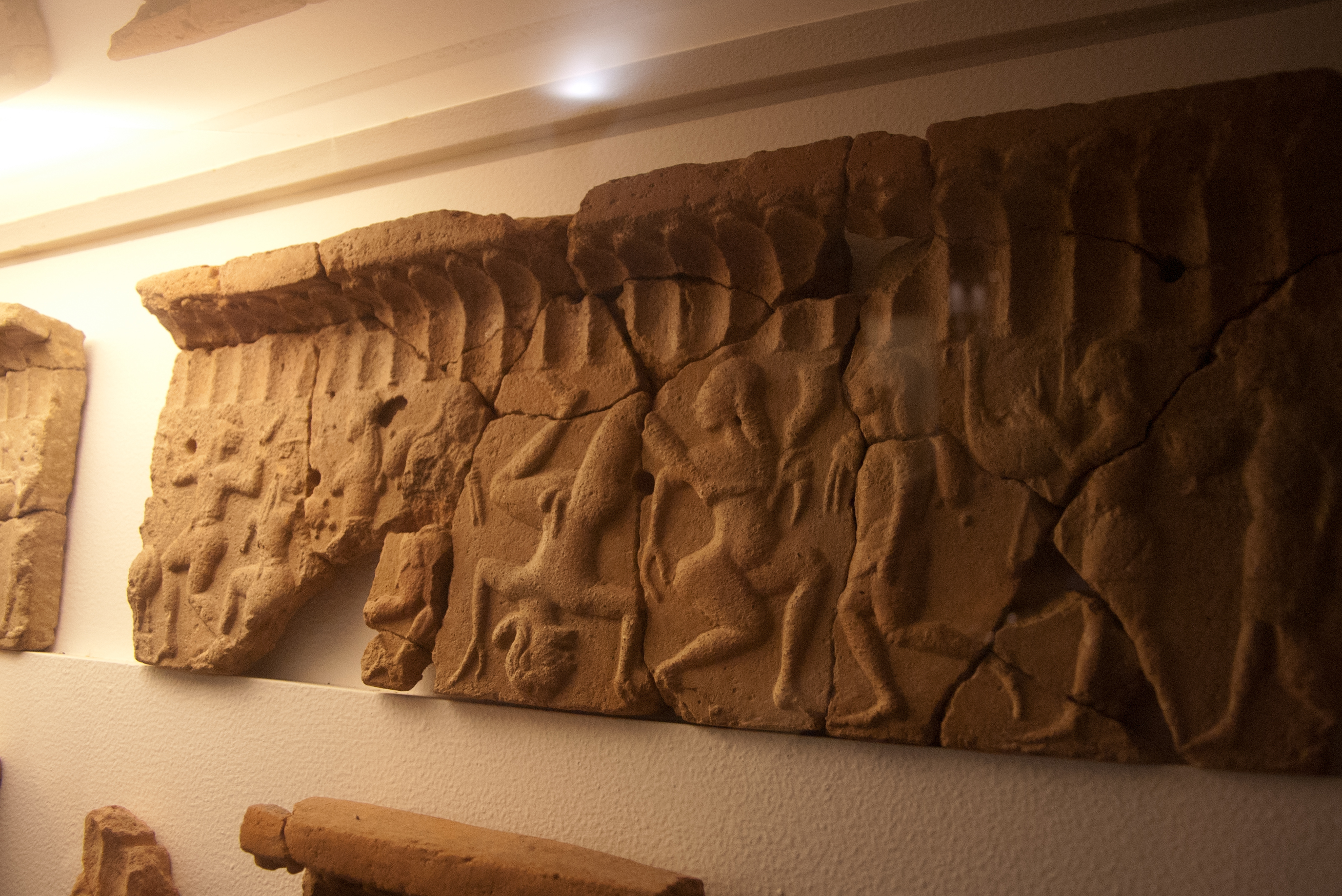 Architectural terracottas from the Etruscan site of Acquarossa, Italy. Museum of Viterbo.